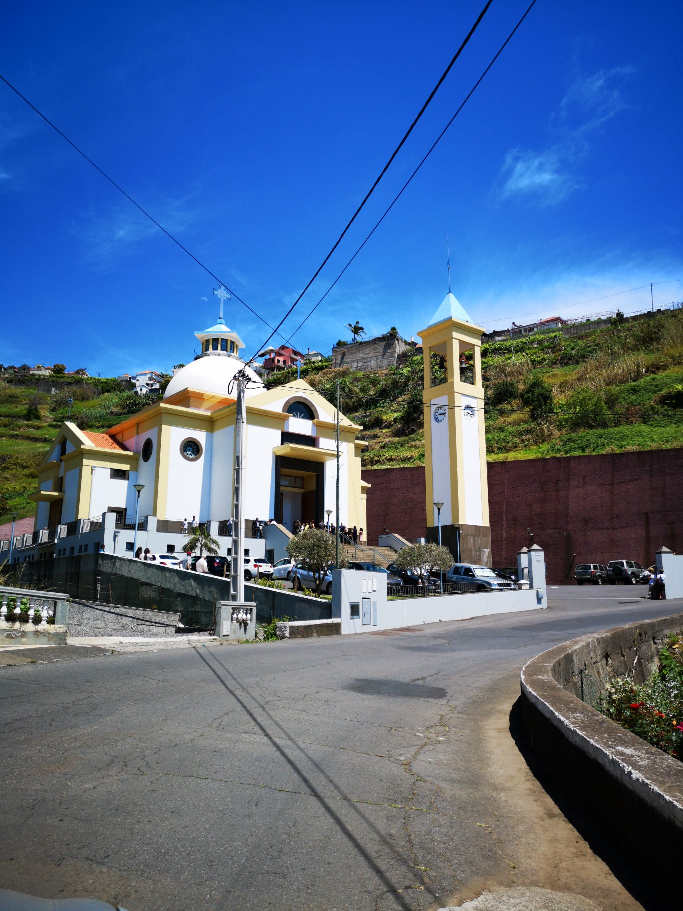 Igreja da paróquia do Atouguia, na freguesia da Calheta